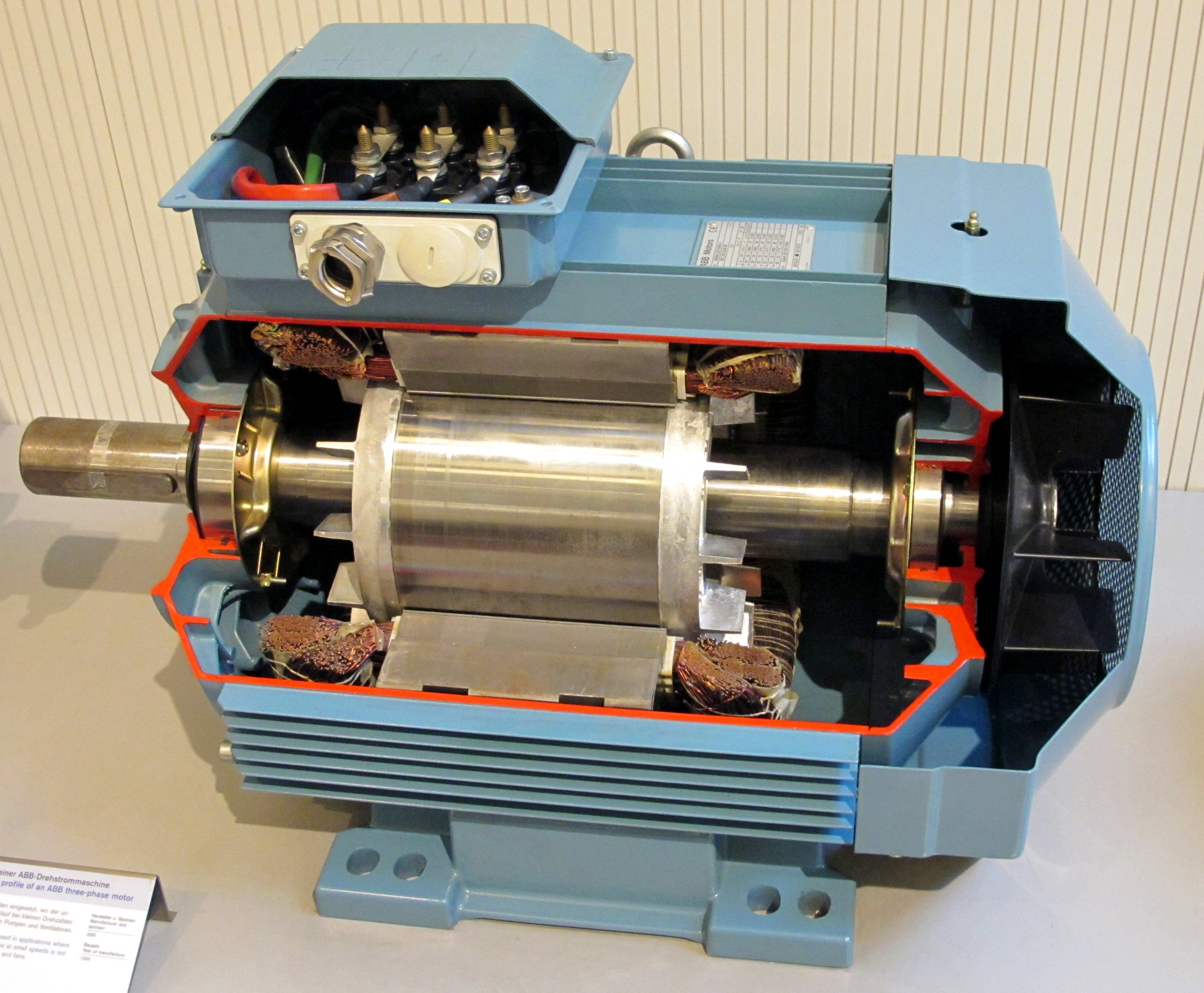 Cutaway model of a present day three-phase induction motor. In contrast to the synchronous motor, whose rotor turns in exact synchronism with the cycles of the AC line current, the induction motor must turn slightly slower than the rotating field generated by the AC current in the stator, to develop torque. Applications where the drive will be speed-dependent torque not particularly interfere, such as in pumps or fans.